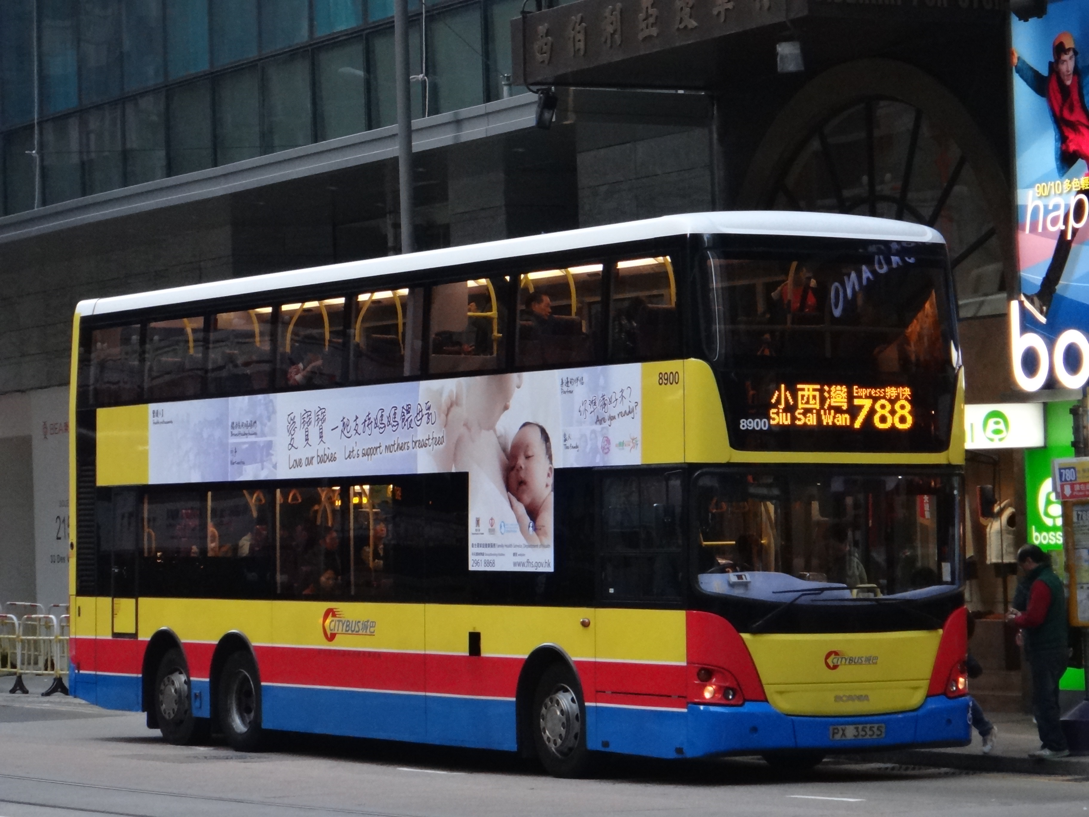 A Scania K280UD (bodied by Salvador Caetano) double-decker bus operated by Citybus in Hong Kong.